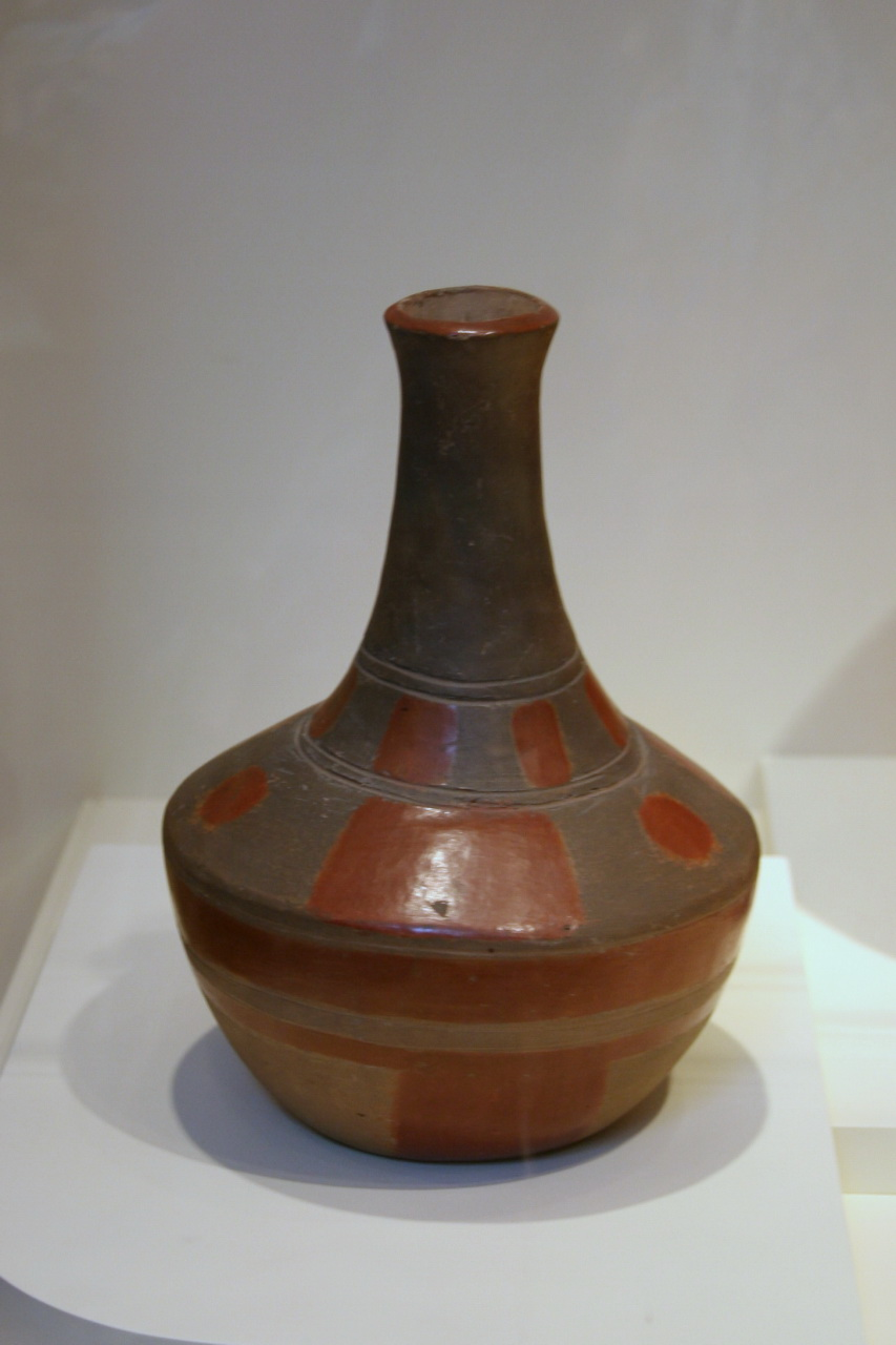 Bottle, Teke people, Kingabwa village, Democratic Republic of the Congo, Early-mid 20th century, Ceramic, pigment